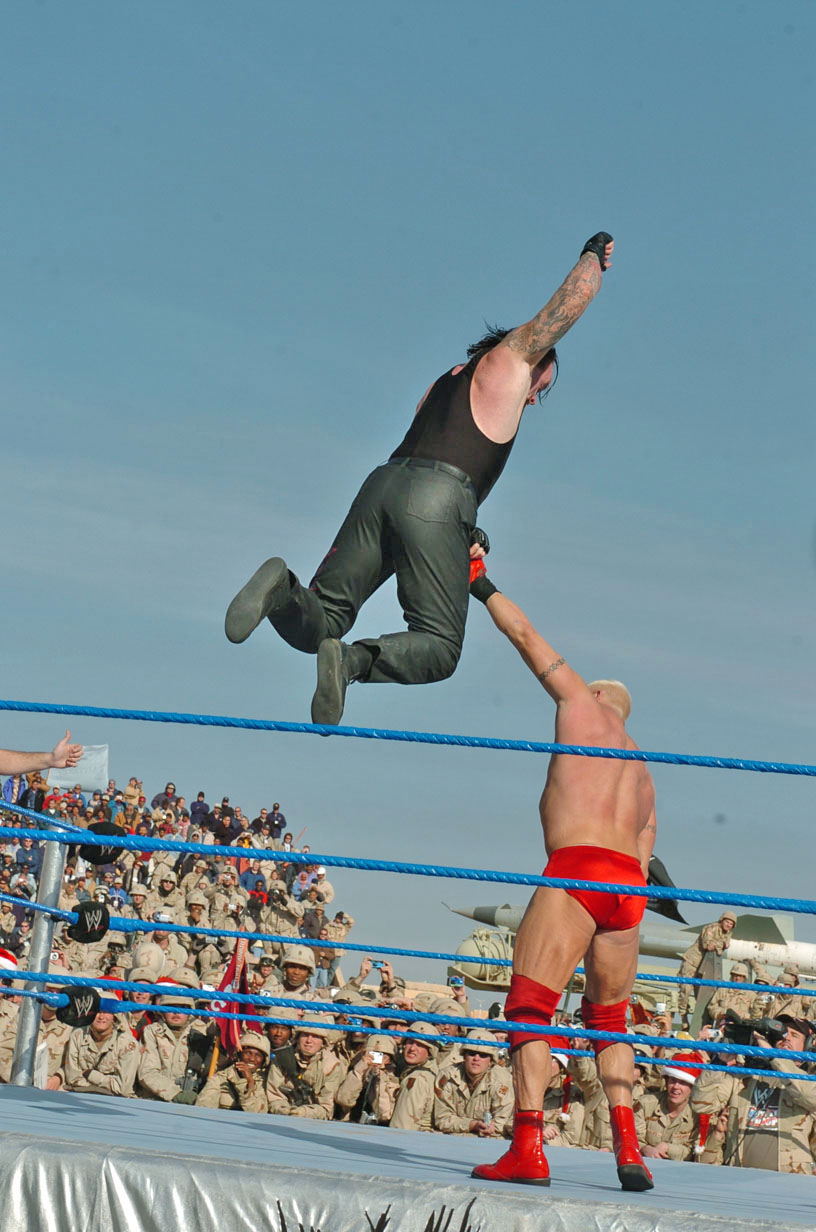 World Wrestling Entertainment (WWE) Smackdown visits the Soldiers of 1st Infantry Division in Iraq. WWE visited several Forward Operating Bases during their three day visit. They ended with a Tribute to the Troops show in Tikrit, Iraq.